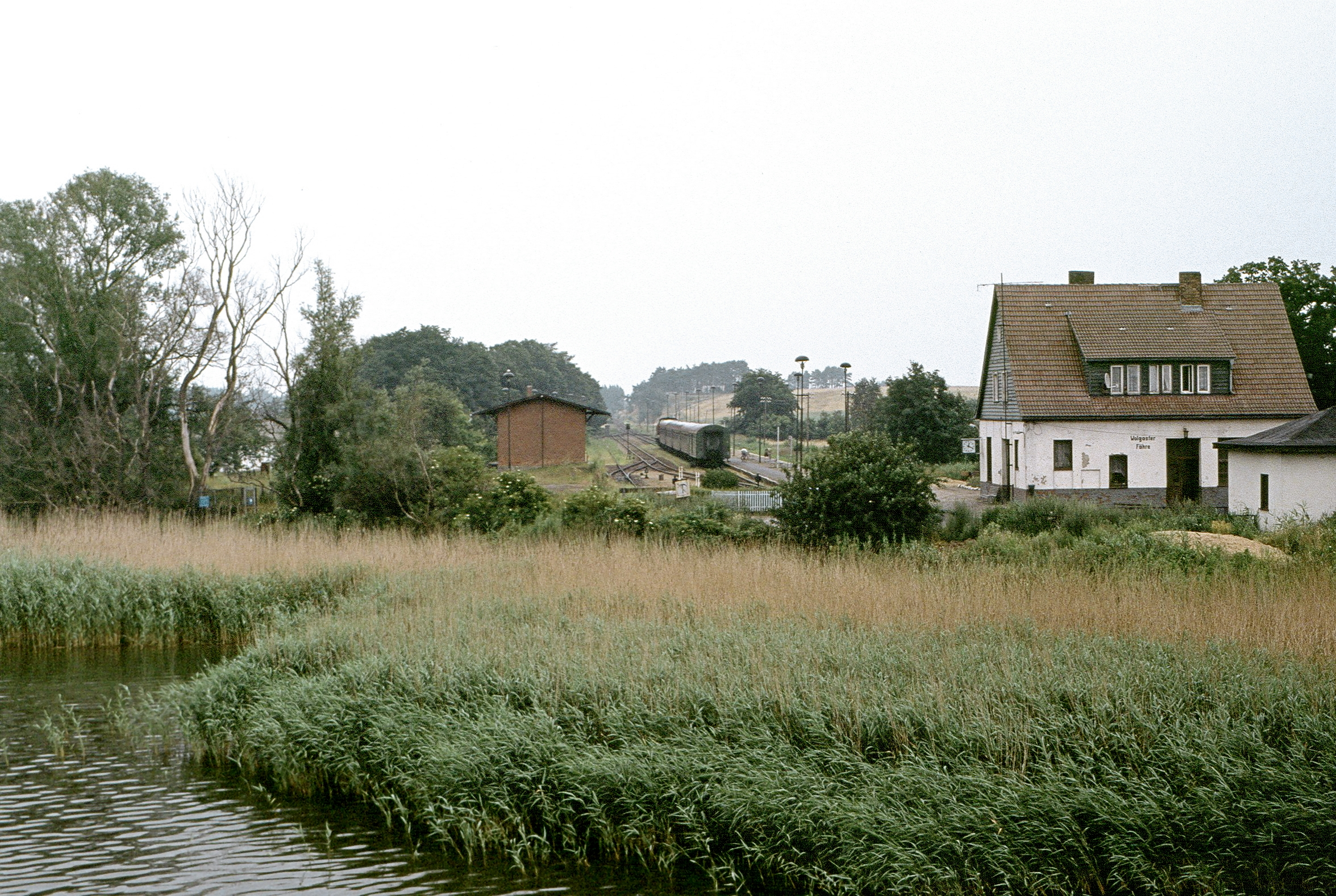 Wolgaster Fähre railway station